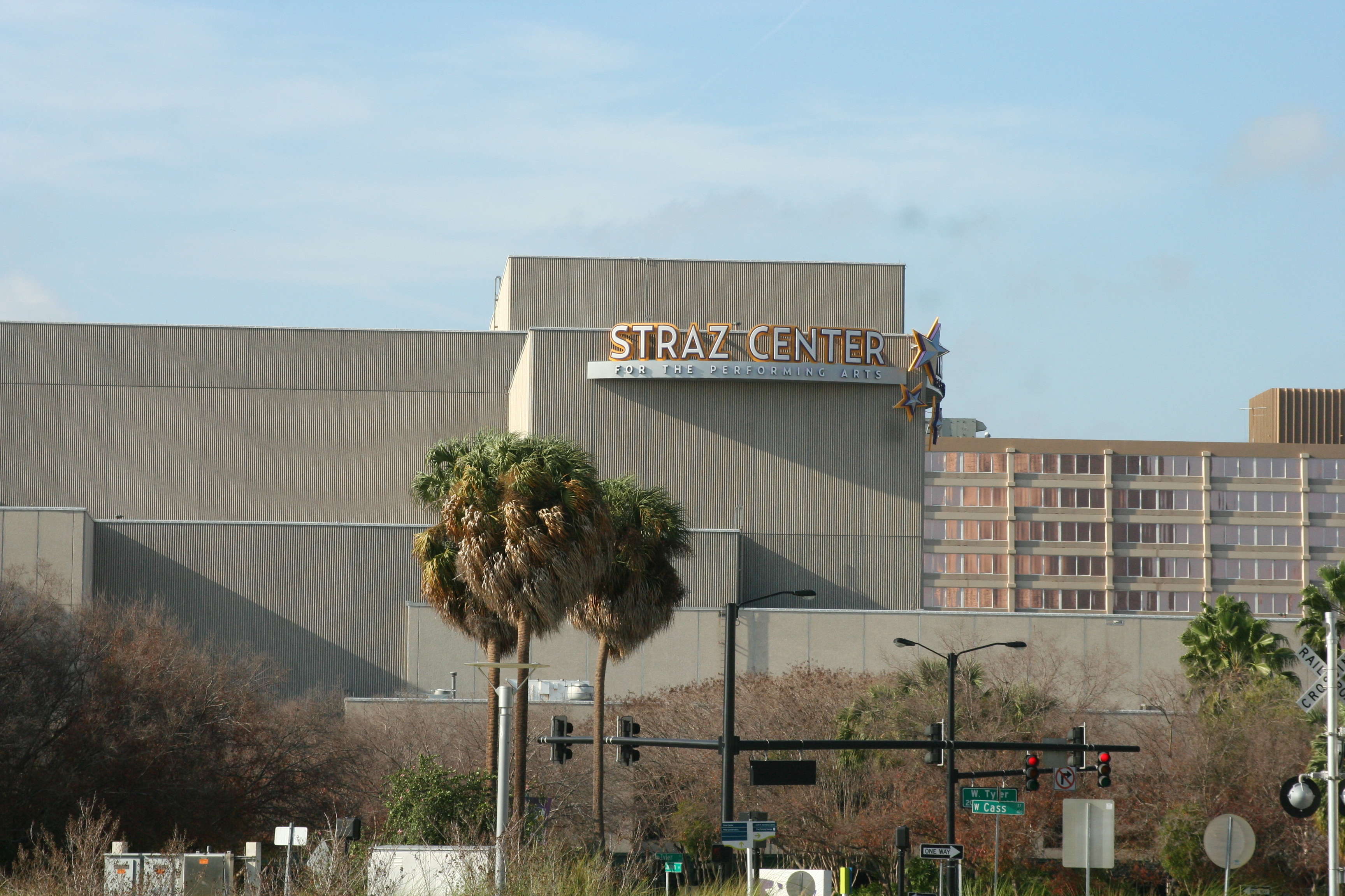 Tampa's Straz Center 2012